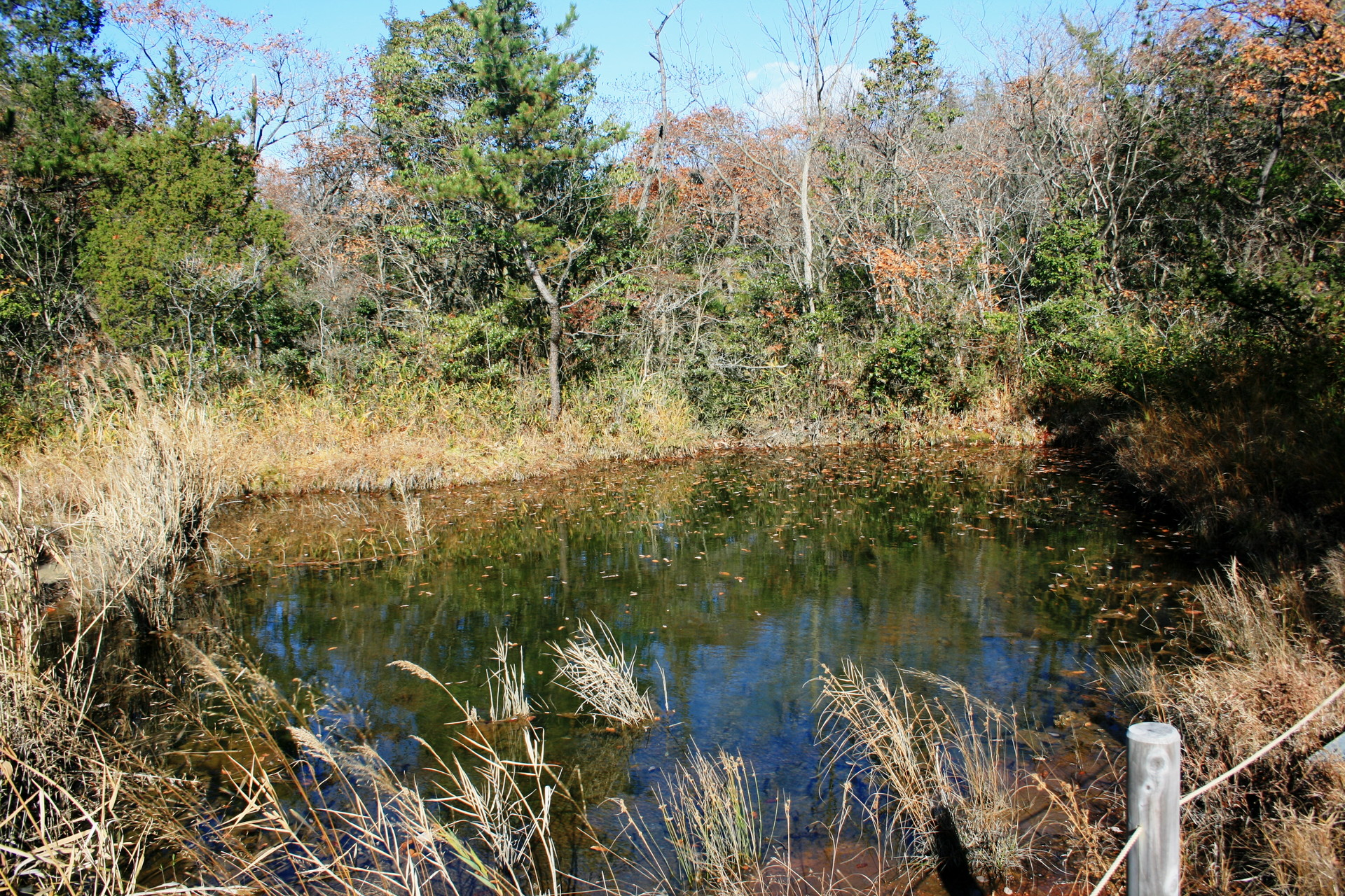 Wetlands in Kaisho Forest